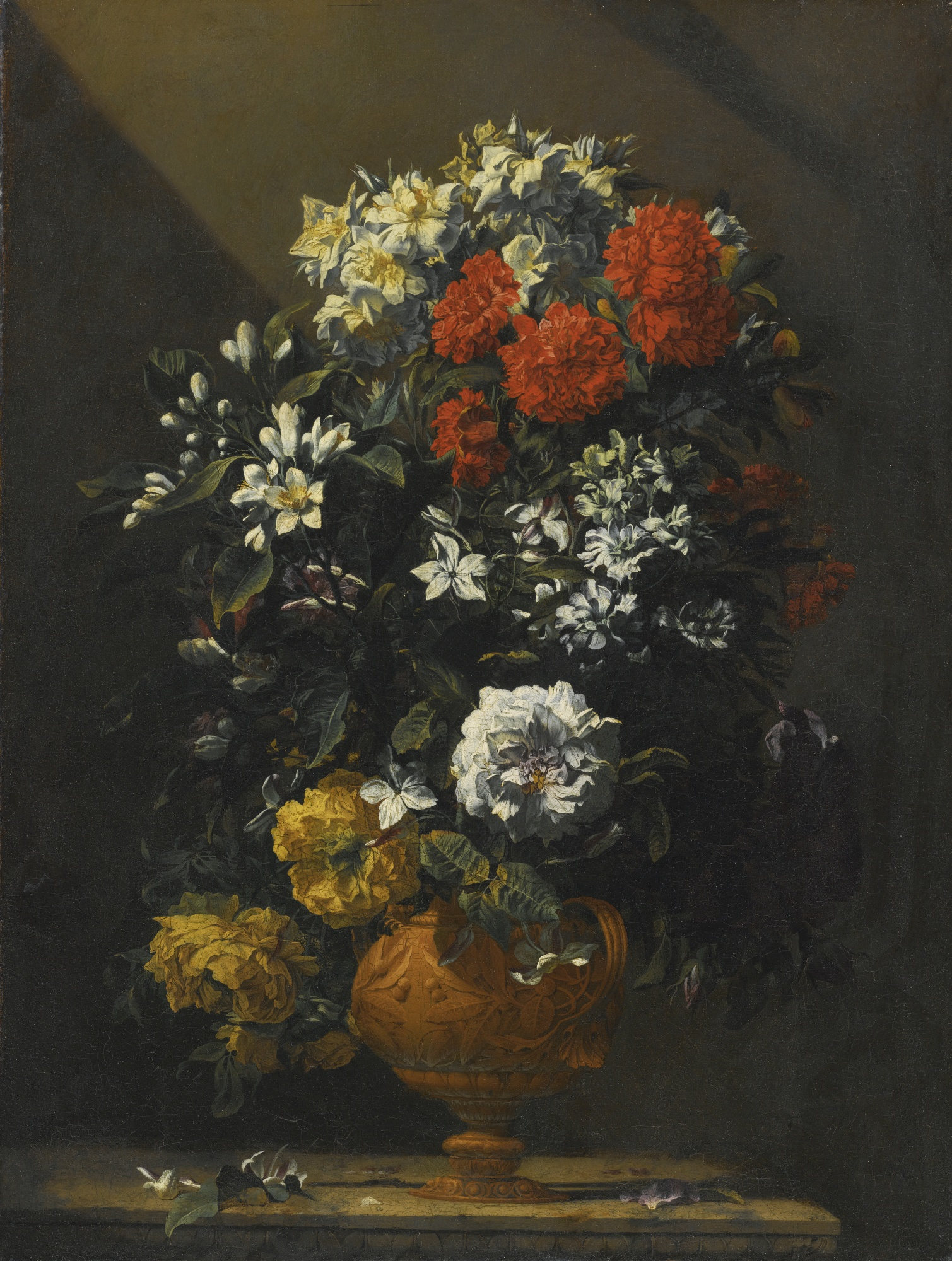 Still Life of Flowers In a Bronze Vase oil on canvasQ296955/Q4259259 50.2 by 37.5 cm